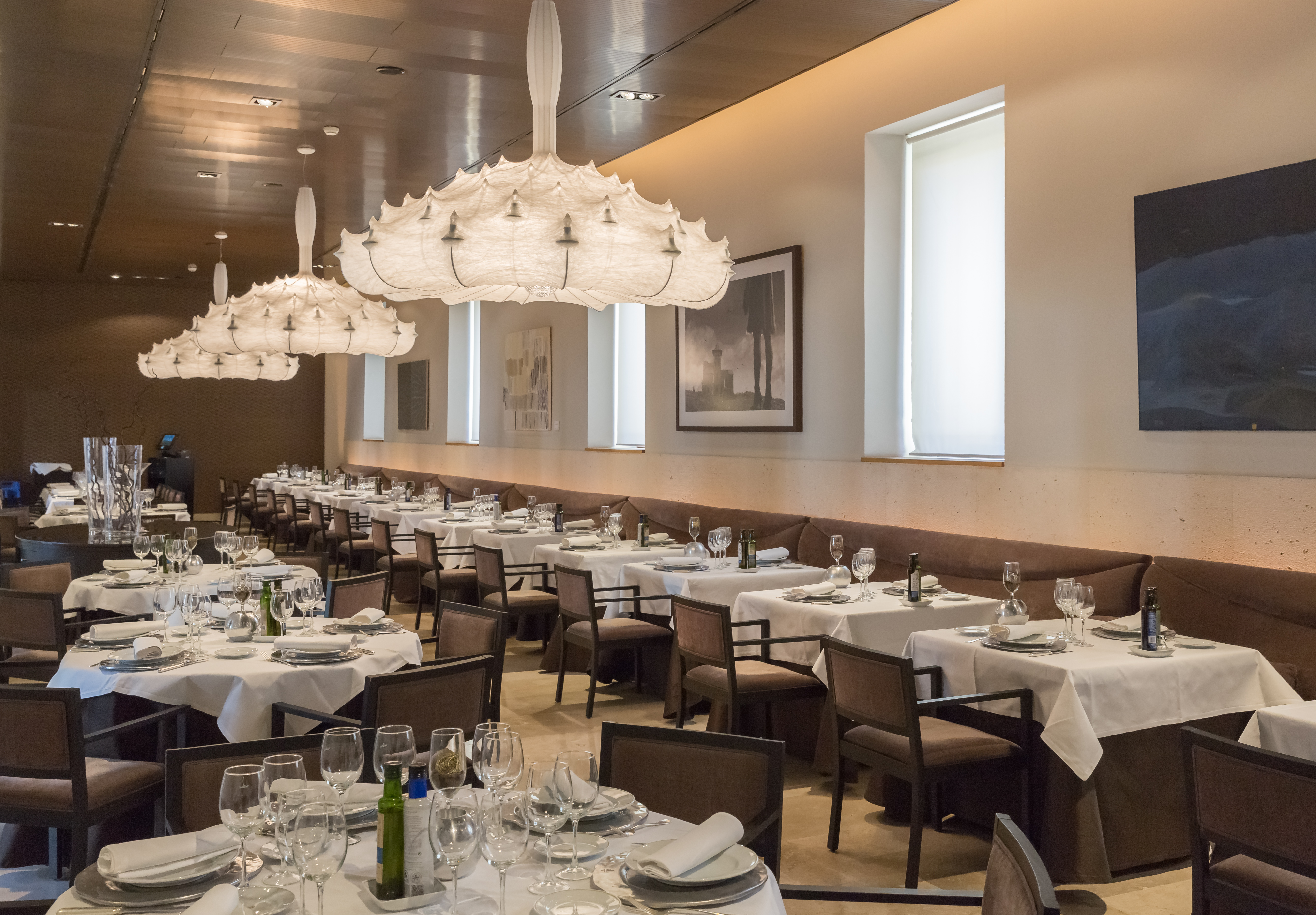 Parador in Alcalá de Henares, Spain